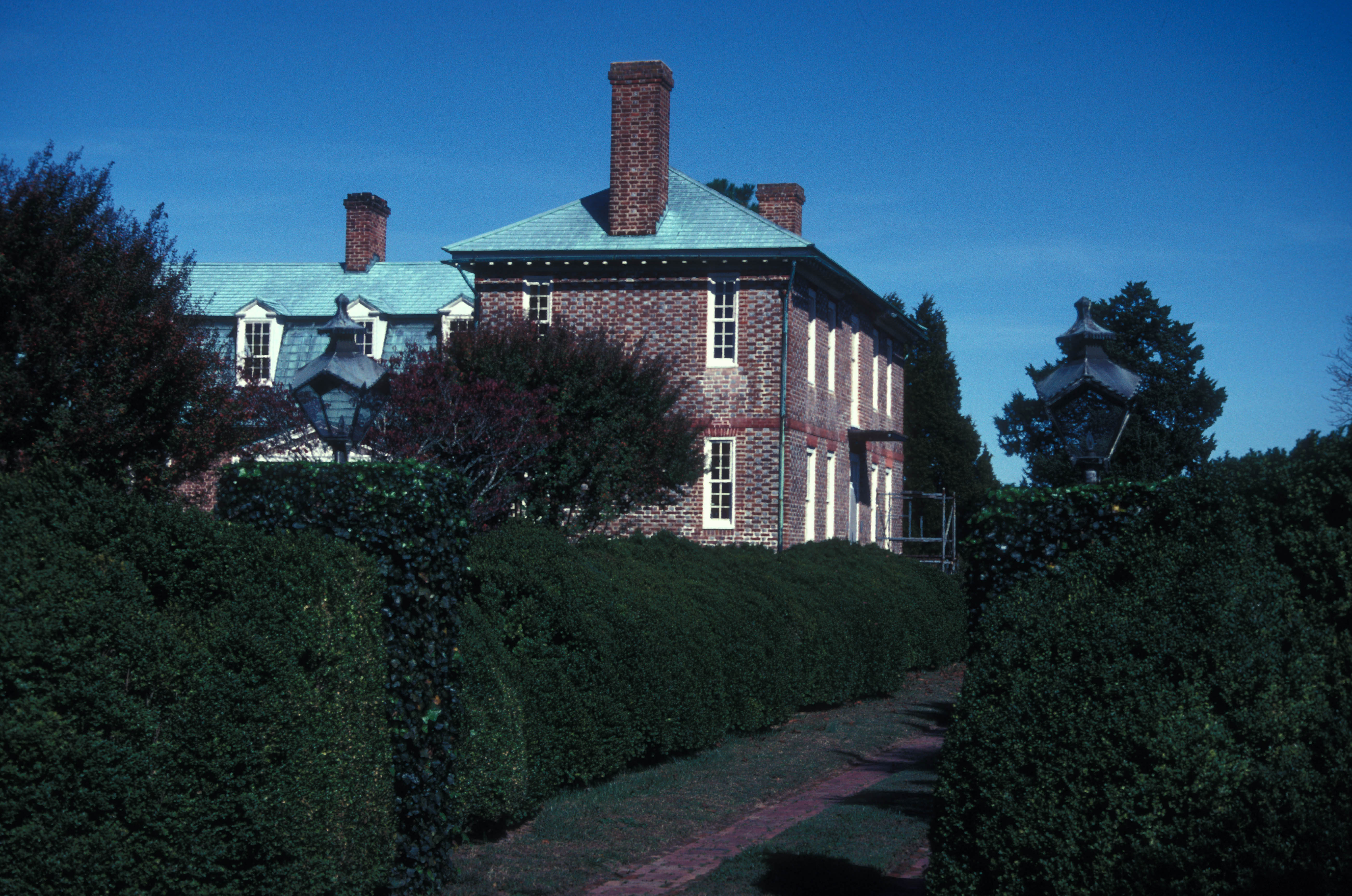 1709; BUILT BY AUGUSTINE MOORE; HERE WAS ORGANIZED THE EXPEDITION KNOWN AS THE KNIGHTS OF THE GOLDEN HORSESHOE WHICH EXPLORED WESTERN VIRGINIA; CONSIDERED TO HAVE SOME OF THE FINEST BRICKWORK IN VIRGINIA